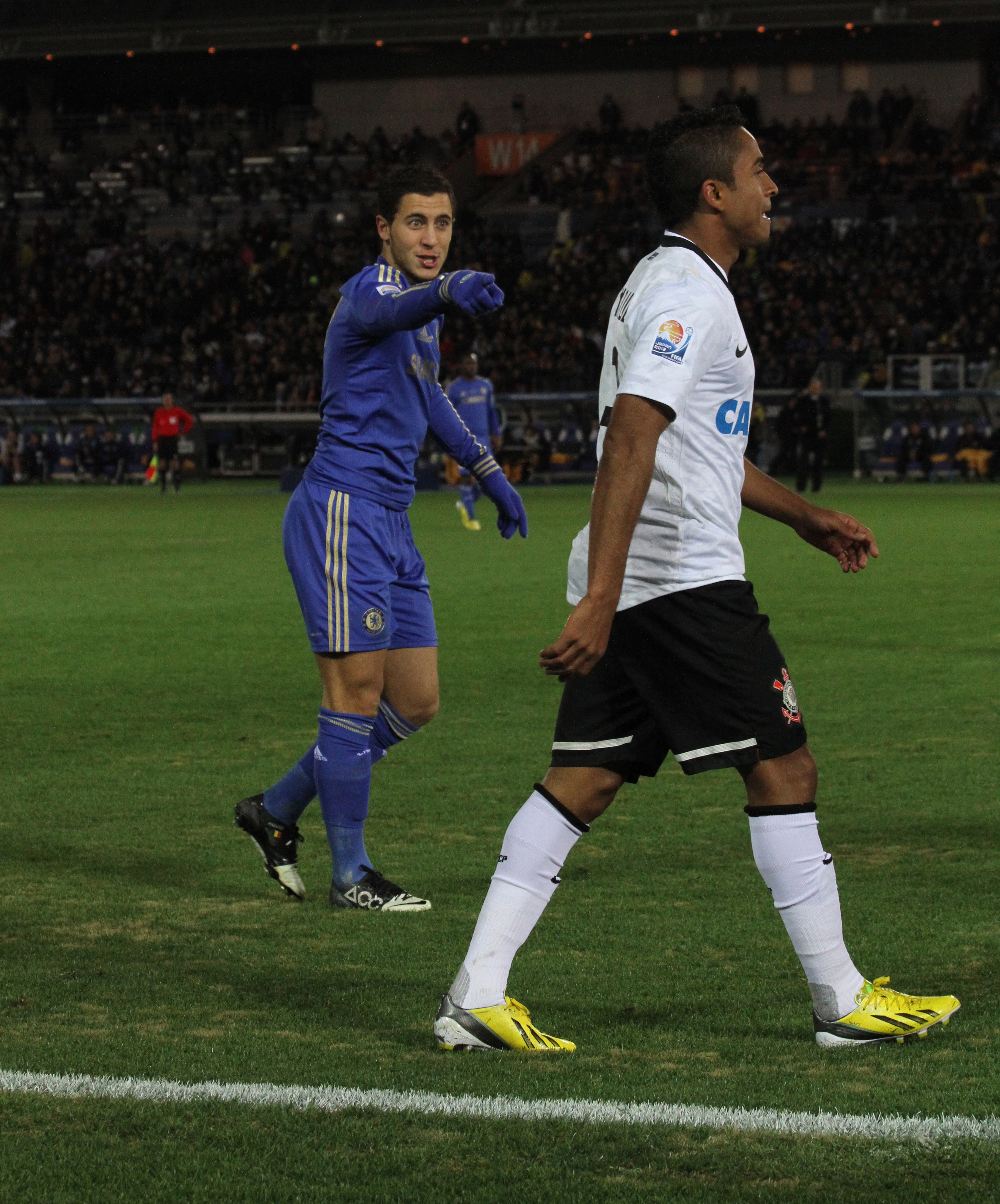 Eden Hazard during the Club World Cup.